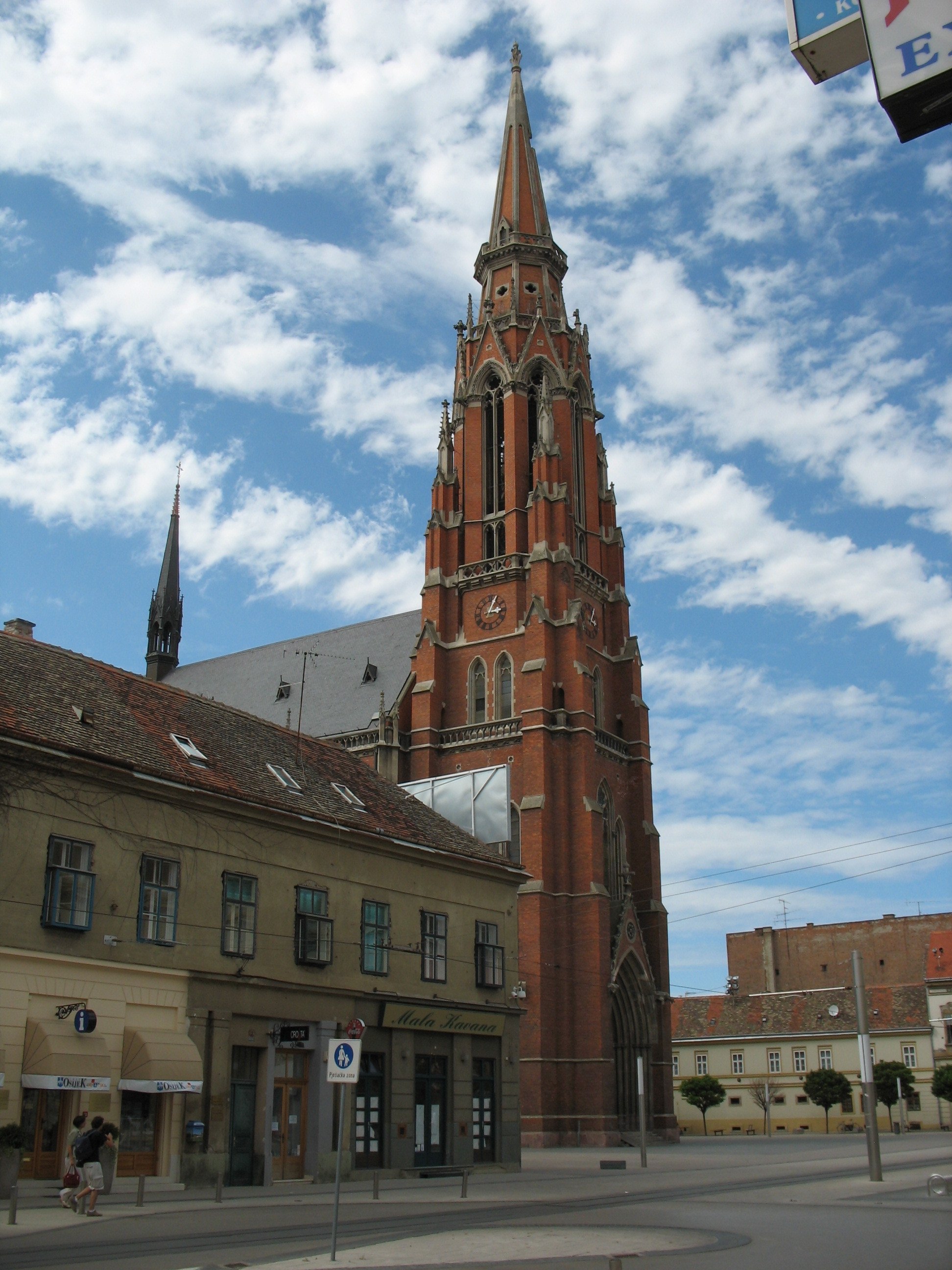 St. Peter and Paul church in old Osijek, Croatia